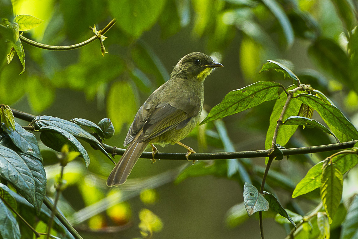 Yellow-whiskered Greenbul - Kenya_S4E7530